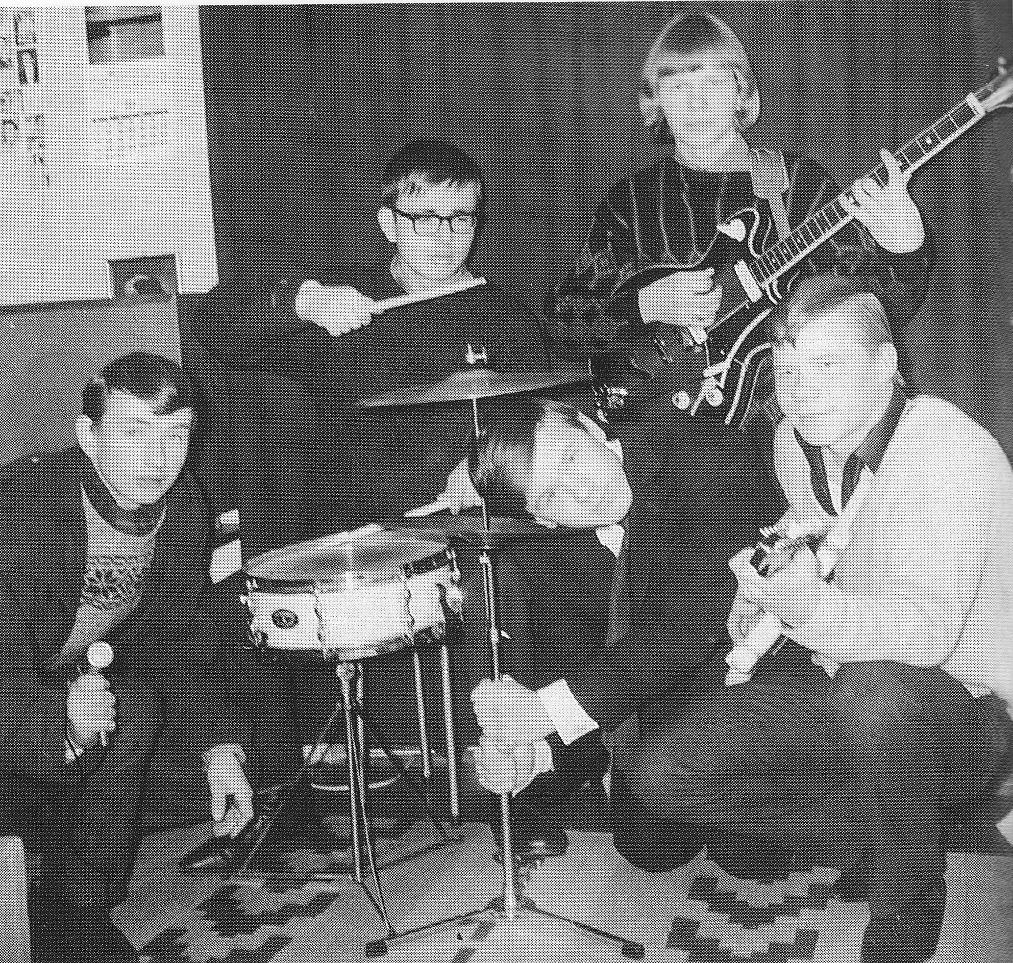 The five yes group, left Rauli Badding Somerjoki